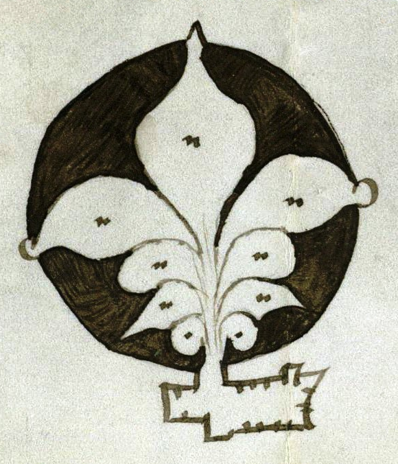 Painted Seal of the Civil Law Notary Gherwinus de Hameln (German: Gerwin von Hameln), a clergyman of the diocese of Braunschweig